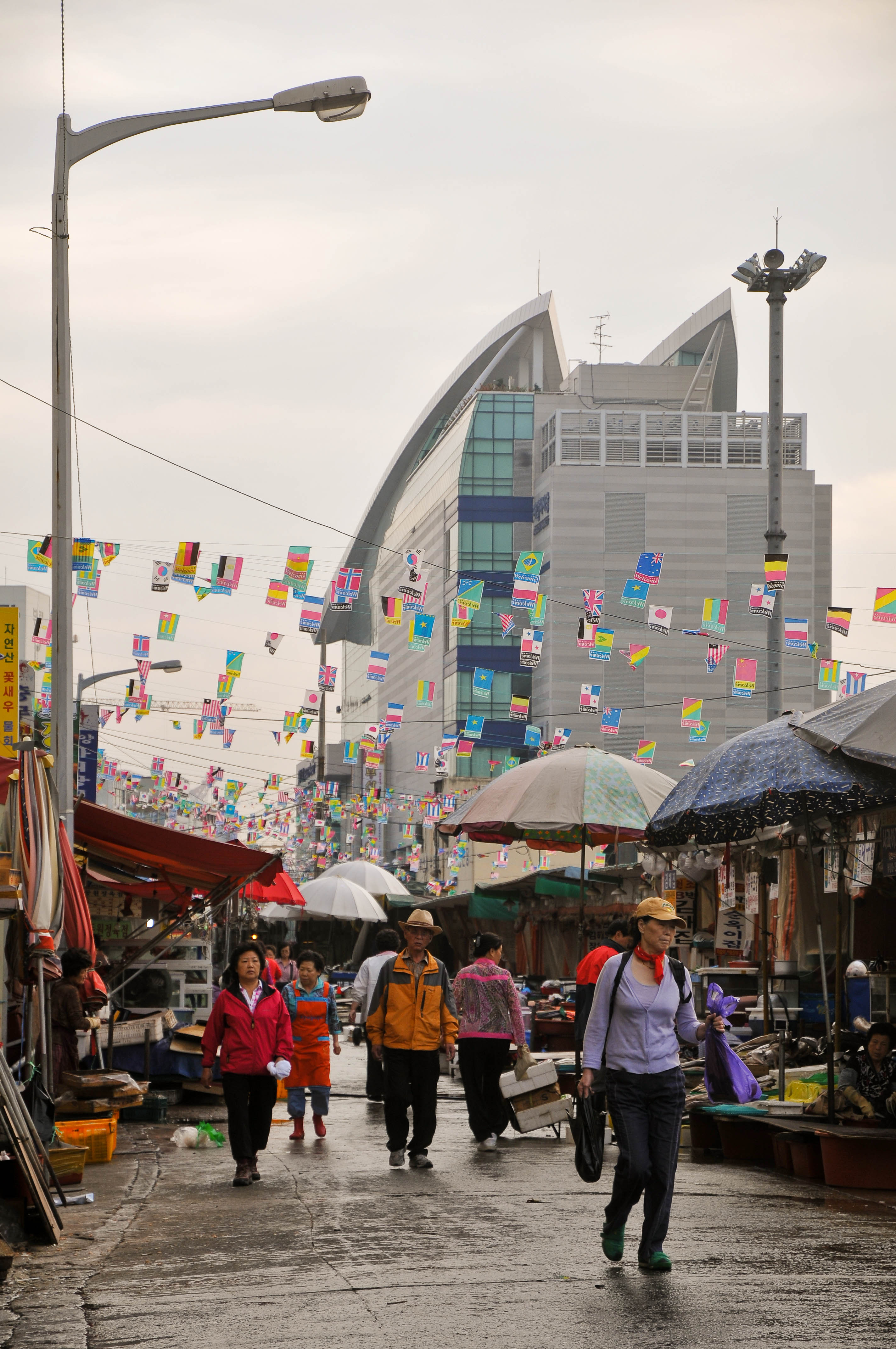 Jagalchi Fish Market, Busan, South Korea. Photograph from Flickr; author Doo Ho Kim; license of cc-by-sa-2.0.